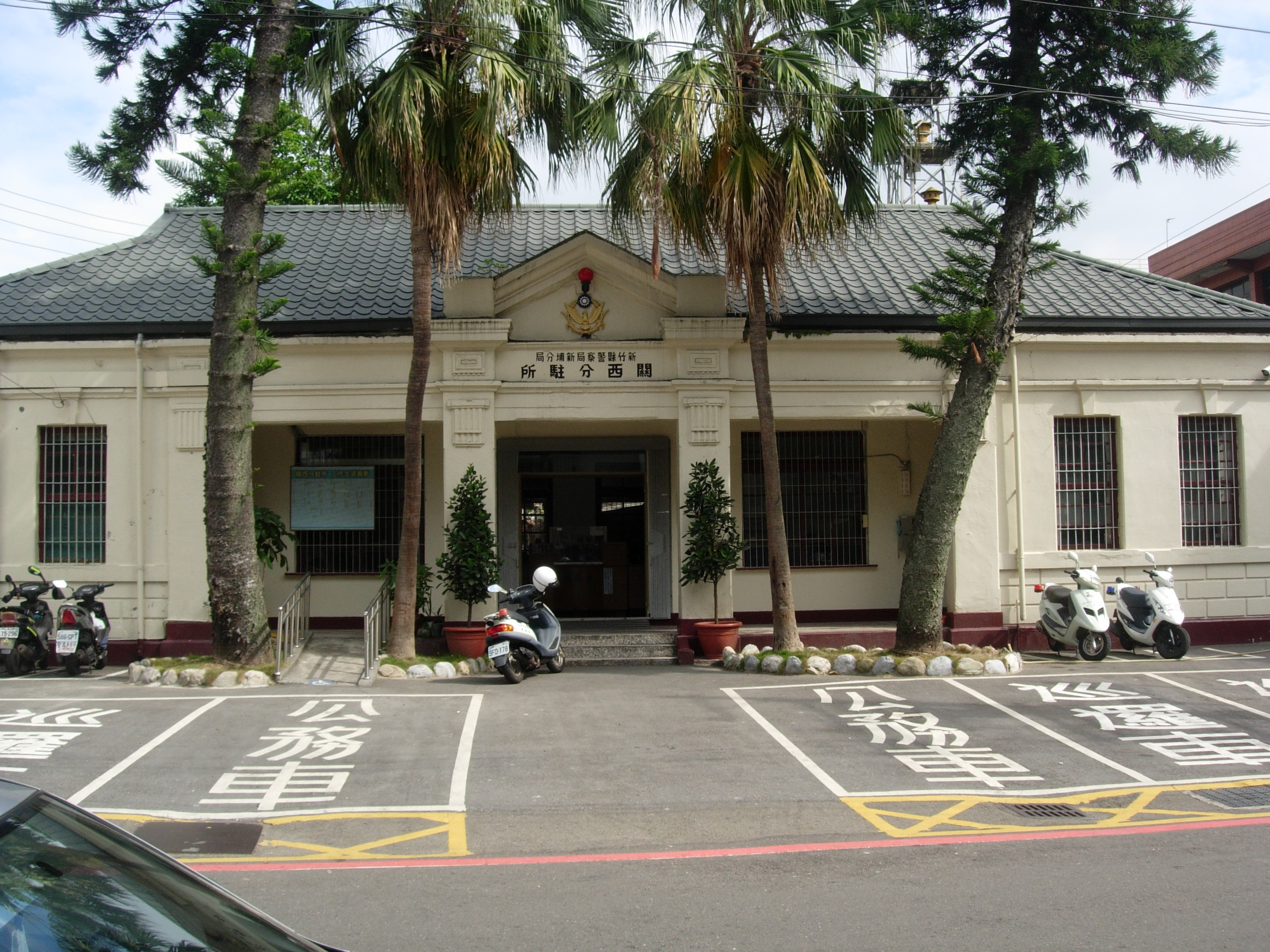 Kuanhsi Police Station中文（台灣）: 關西分駐所。